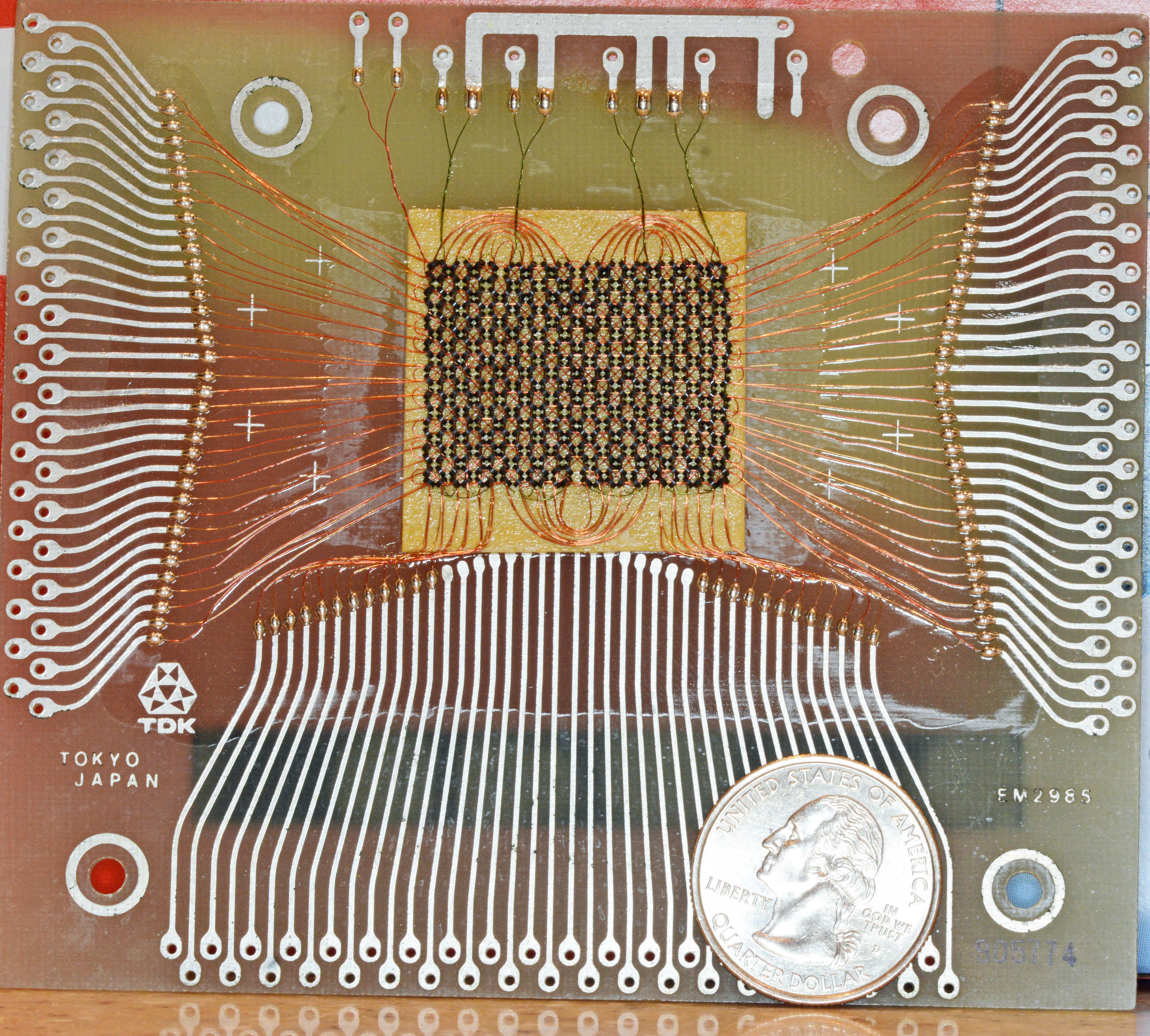 Magnetic-core memory, 18x24 bits